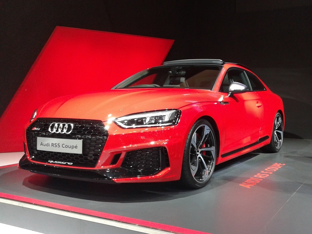 2018 Audi RS5 Coupe, shown in Misano Red.